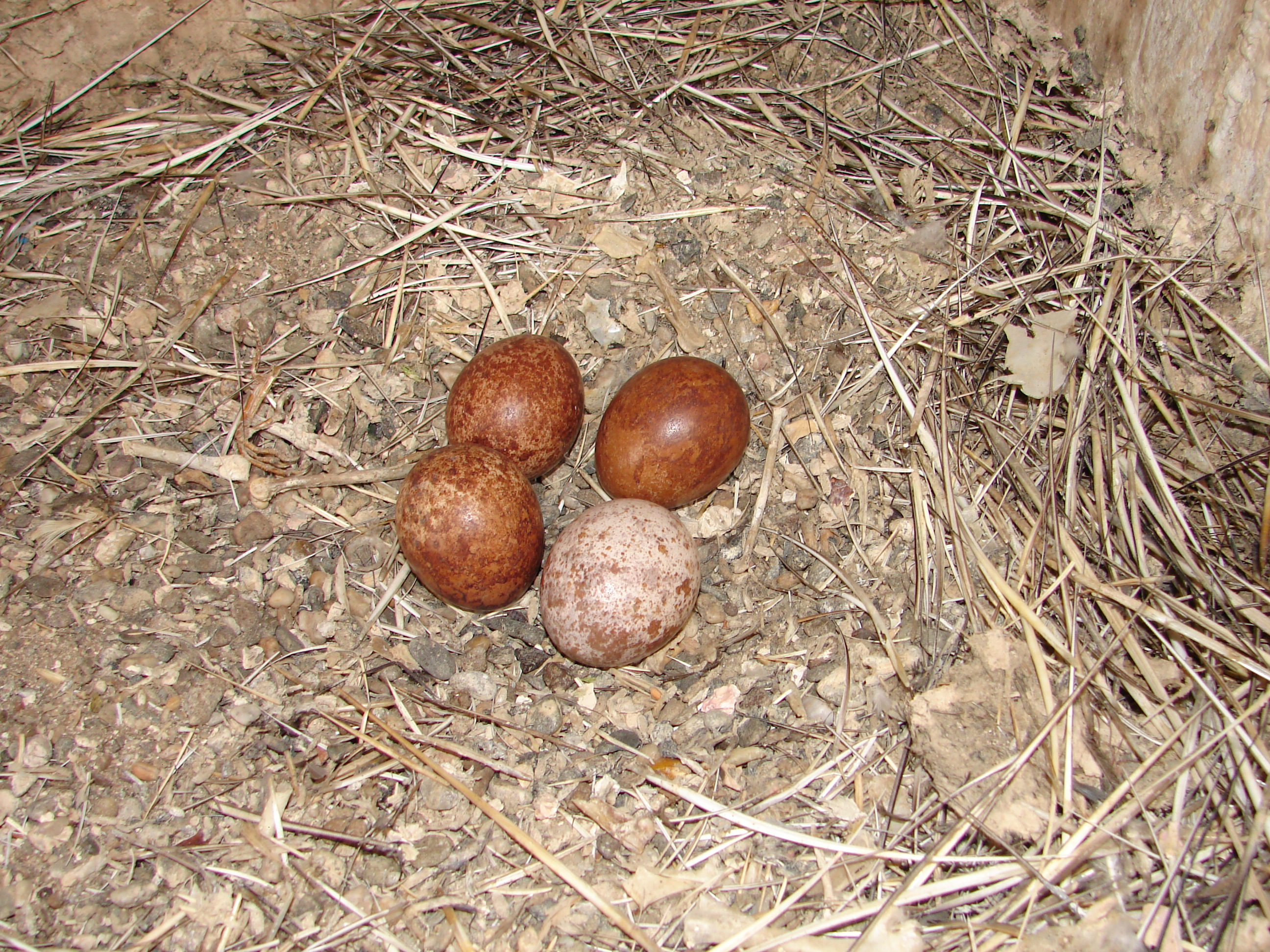 A four-egg clutch of the Peregrine Falcon in a nest box put up by the Arbeitsgemeinschaft Wanderfalkenschutz Nordrhein-Westfalen (AGW-NRW, Working group Peregrine protection of North Rhine-Westphalia) at a power generation station in Cologne.